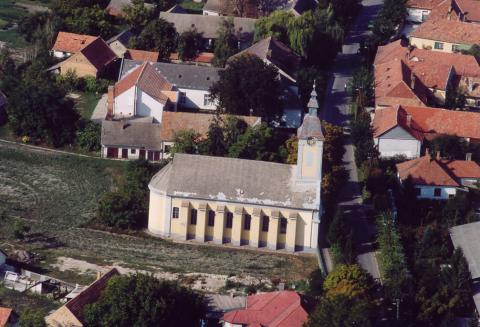 Apostag, aerial view of the Lutheran Church.